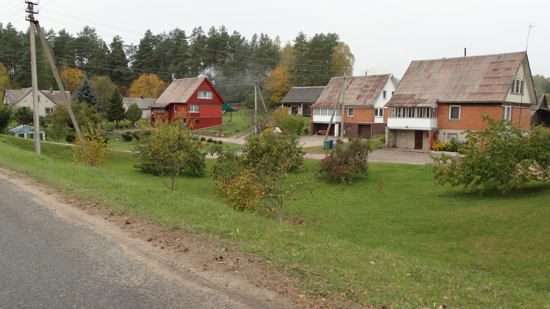 Houses, Krikštonys, Lazdijai district, Lithuania